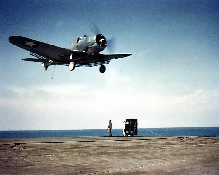 A U.S. Navy Douglas SBD Dauntless scout bomber goes around for another landing attempt, after being "waved off" by the Landing Signal Officer on USS Ranger (CV-4), circa June 1942.